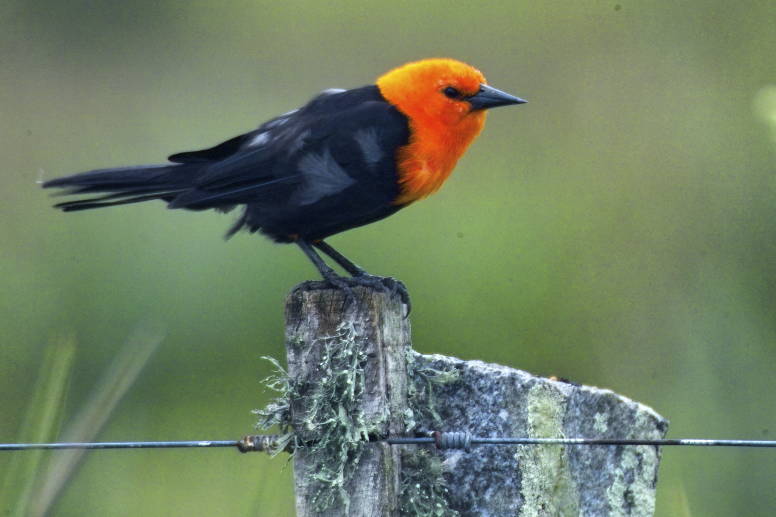 Scarlet-headed Blackbird, Amblyramphus_holosericeus, by Ken Erickson, User:Kenvanportbc.